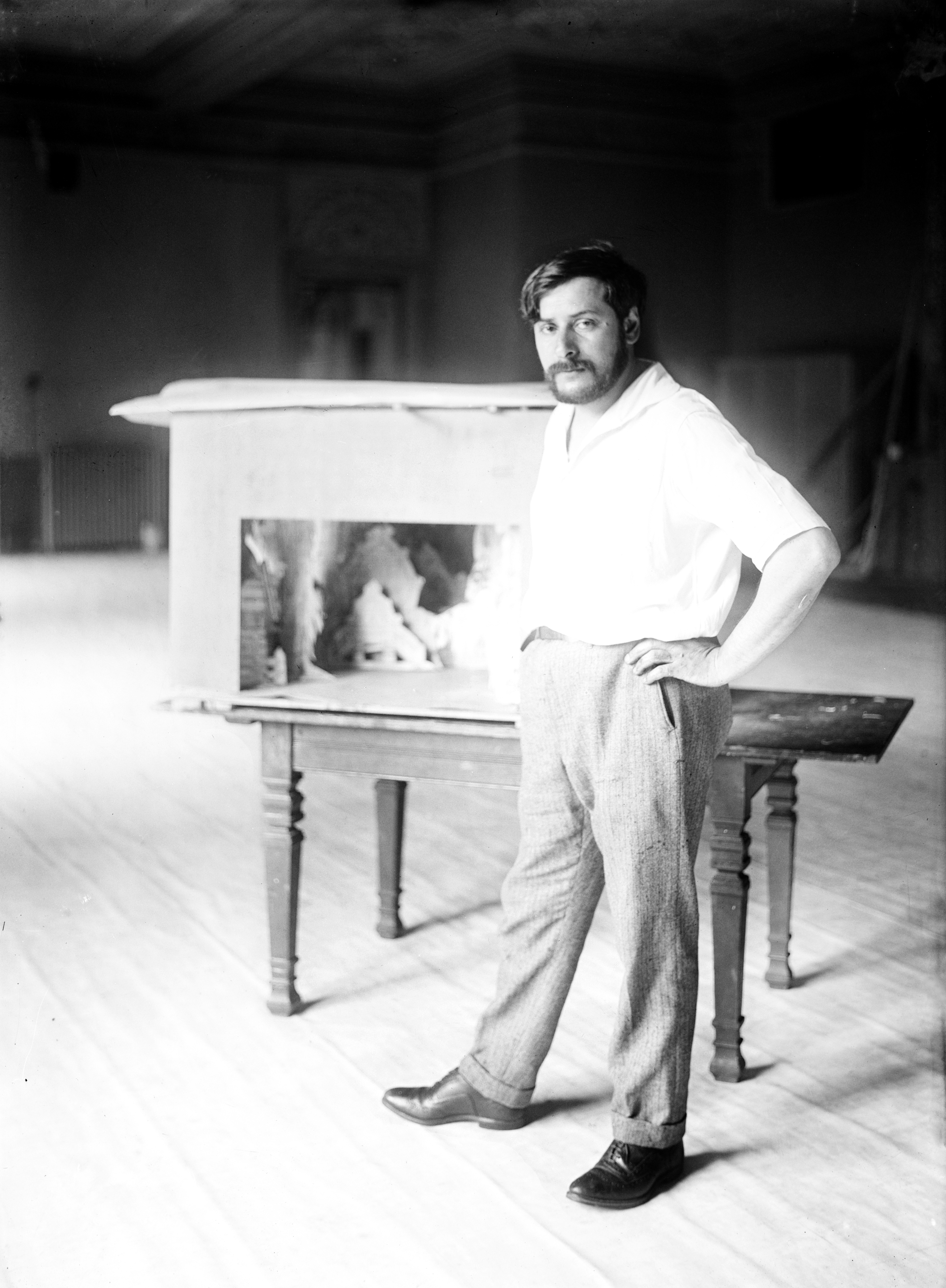 Photograph of Boris Anisfeld